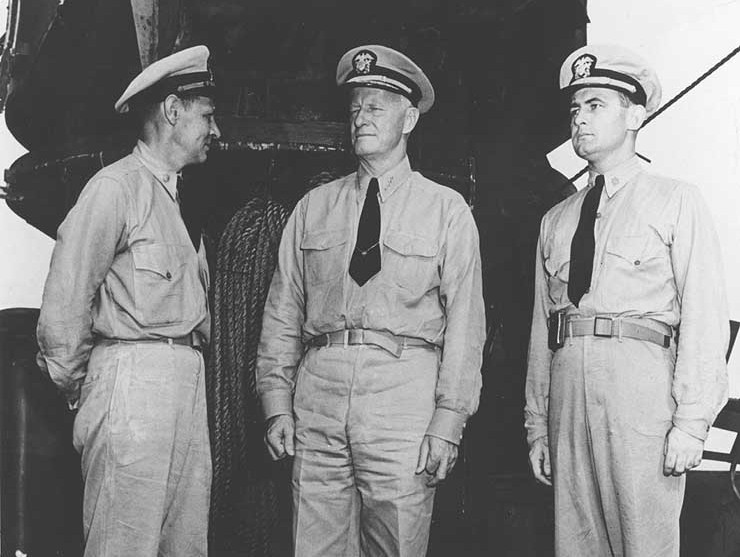 Admiral Chester W. Nimitz, USN (center) (Commander in Chief, Pacific Fleet and Pacific Ocean Areas) on board the heavy cruiser USS San Francisco (CA-38) to visit the two senior ship's officers who had survived the Naval Battle of Guadalcanal, 12-13 November 1942. The photo was taken at Pearl Harbor, while San Francisco was en route to California for battle damage repairs. On the left is Commander Herbert E. Schonland, USN, who assumed command after the ship's Captain was killed and led damage control efforts. On the right is Lieutenant Commander Bruce McCandless, USN, the ship's Communications Officer, who took over the conn and subsequently navigated San Francisco to safety. Both Schonland and McCandless received the Medal of Honor for their actions during and immediately after the battle.